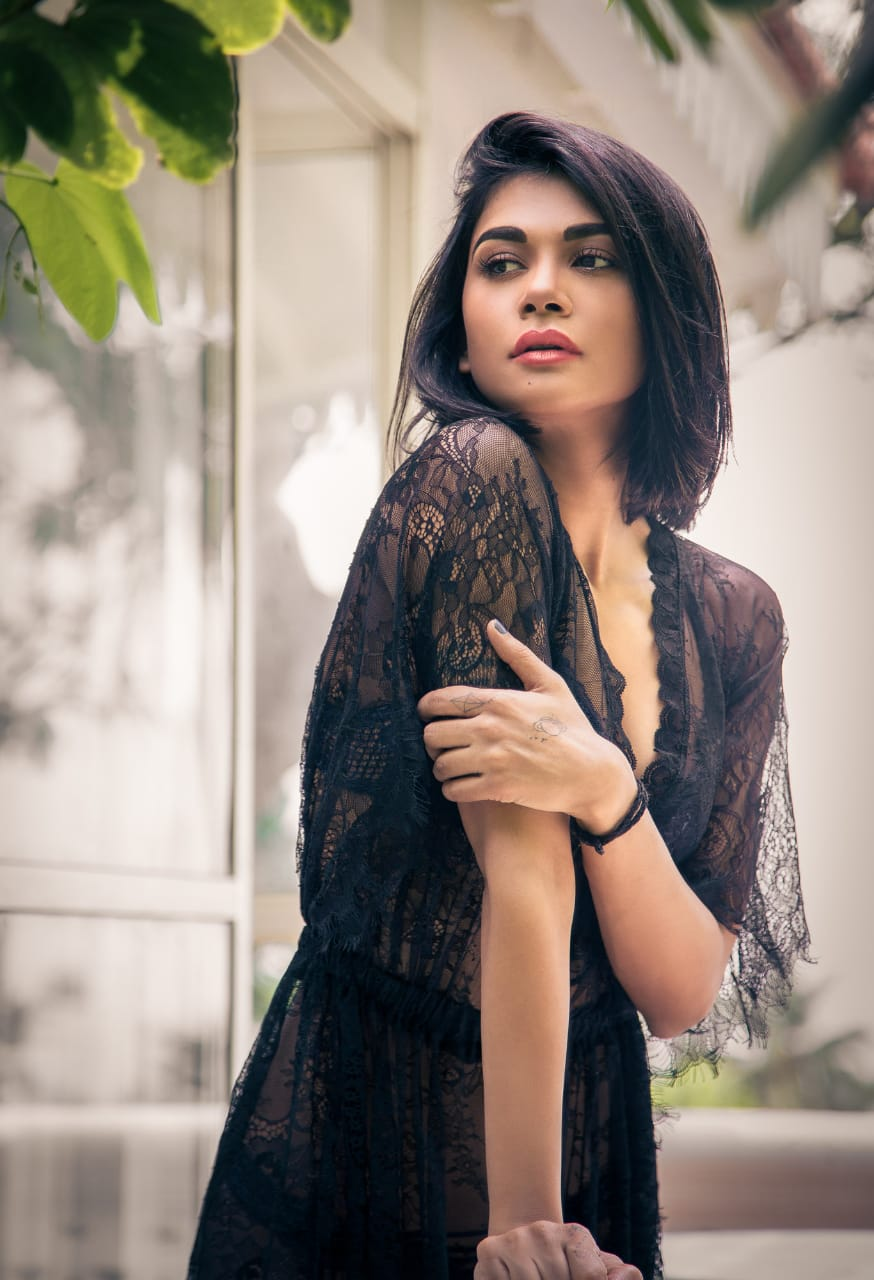 A picture of Sakshi Pradhan from 2019